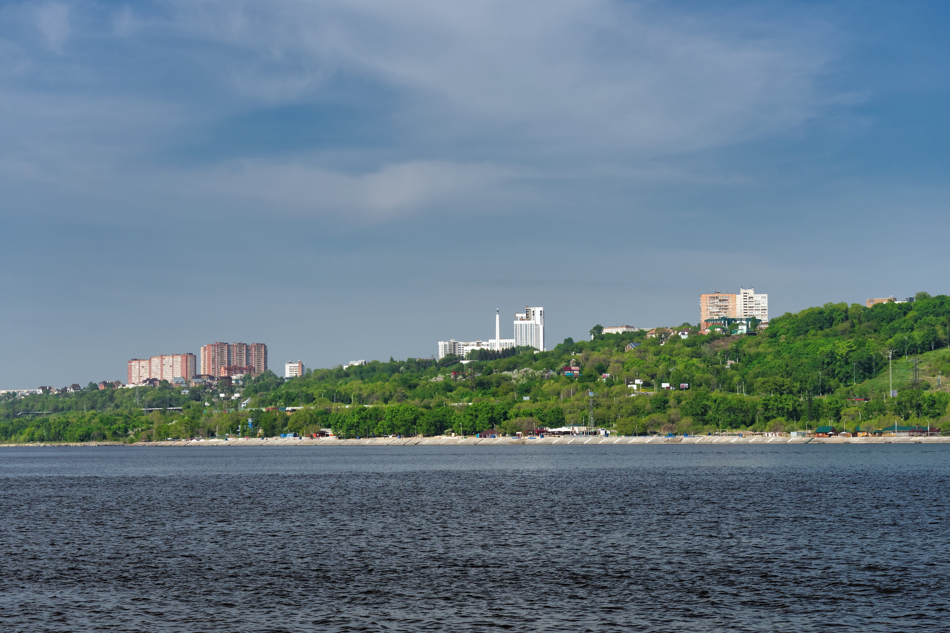 Ulyanovsk